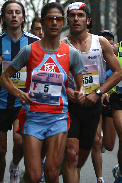 Nadia Ejjafini (#5) in the 2007 Milano City Marathon.